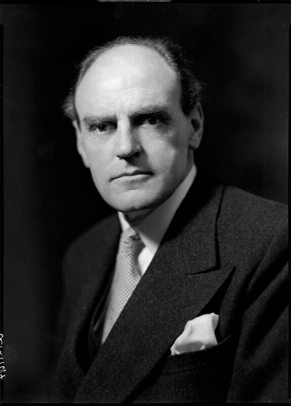 half-plate film negative